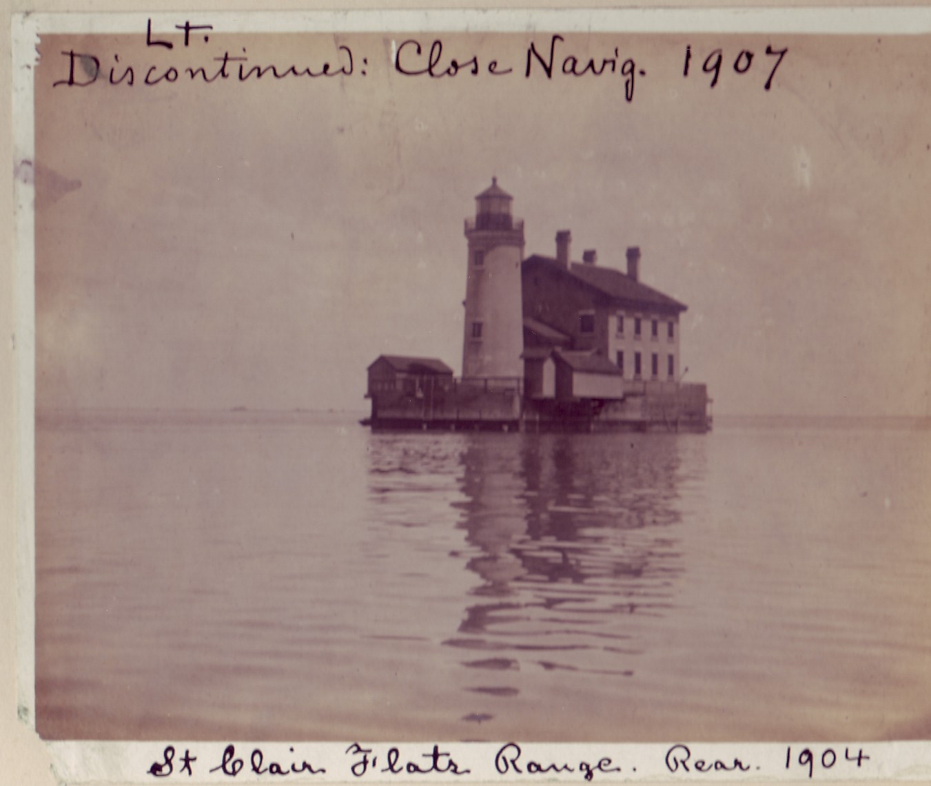 en:St. Clair Flats Front and Rear Range Light]|St. Clair Flats Rear Range Light , Michigan - circa 1904